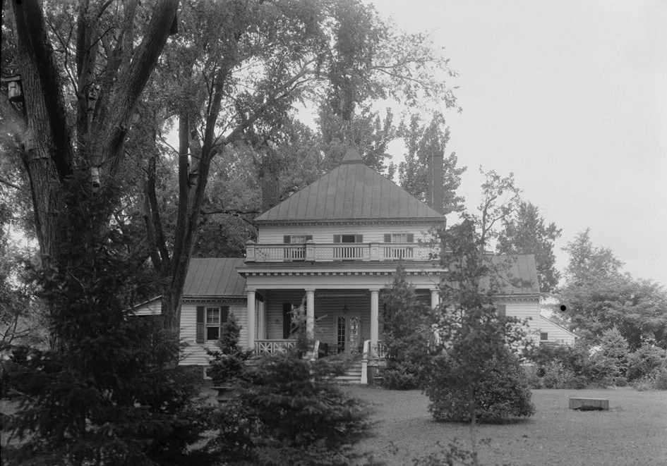 Belnemus, U.S. Route 60 vicinity, Powhatan vicinity (Powhatan County, Virginia) cropped, HABS VA,73-POW.V,1-2 This file comes from the Historic American Buildings Survey (HABS), Historic American Engineering Record (HAER) or Historic American Landscapes Survey (HALS). These are programs of the National Park Service established for the purpose of documenting historic places. Records consist of measured drawings, archival photographs, and written reports. When reusing please credit: Library of Congress, Prints & Photographs Division, VA-86 This tag does not indicate the copyright status of the attached work. A normal copyright tag is still required. See Commons:Licensing. This work is in the public domain in the United States because it is a work prepared by an officer or employee of the United States Government as part of that person’s official duties under the terms of Title 17, Chapter 1, Section 105 of the US Code. Note: This only applies to original works of the Federal Government and not to the work of any individual U.S. state, territory, commonwealth, county, municipality, or any other subdivision. This template also does not apply to postage stamp designs published by the United States Postal Service since 1978. (See § 313.6(C)(1) of Compendium of U.S. Copyright Office Practices). It also does not apply to certain US coins; see The US Mint Terms of Use. This file has been identified as being free of known restrictions under copyright law, including all related and neighboring rights.